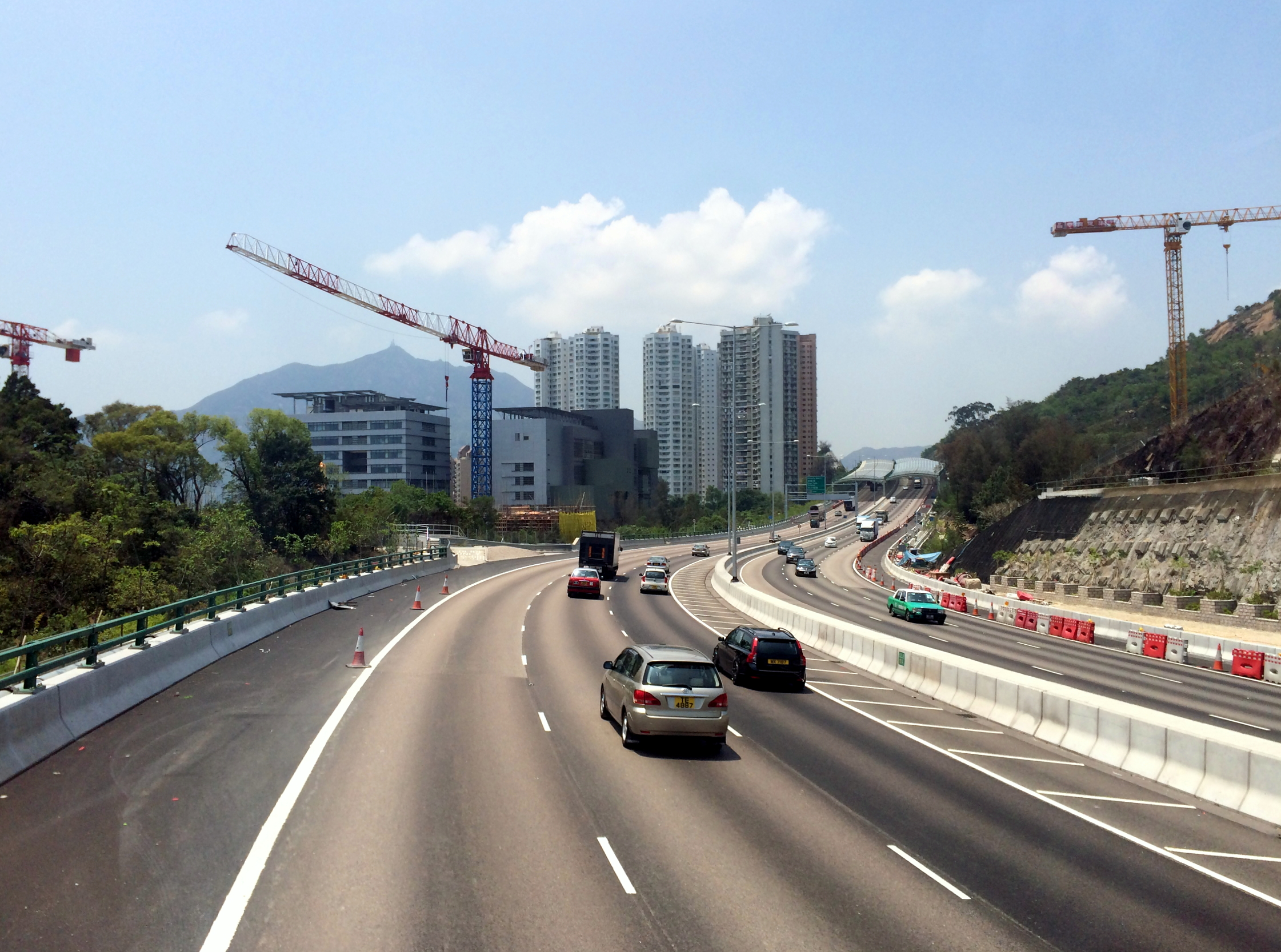 Tuen Mun Road Sam Shing Section